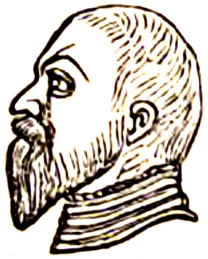 Frederick I. Casimir, duke of Teschen (1560-1571). A cut-out from a drawing by Hugo von Saurma-Jeltsch, 1883, based on a coin portrait minted in 1569.